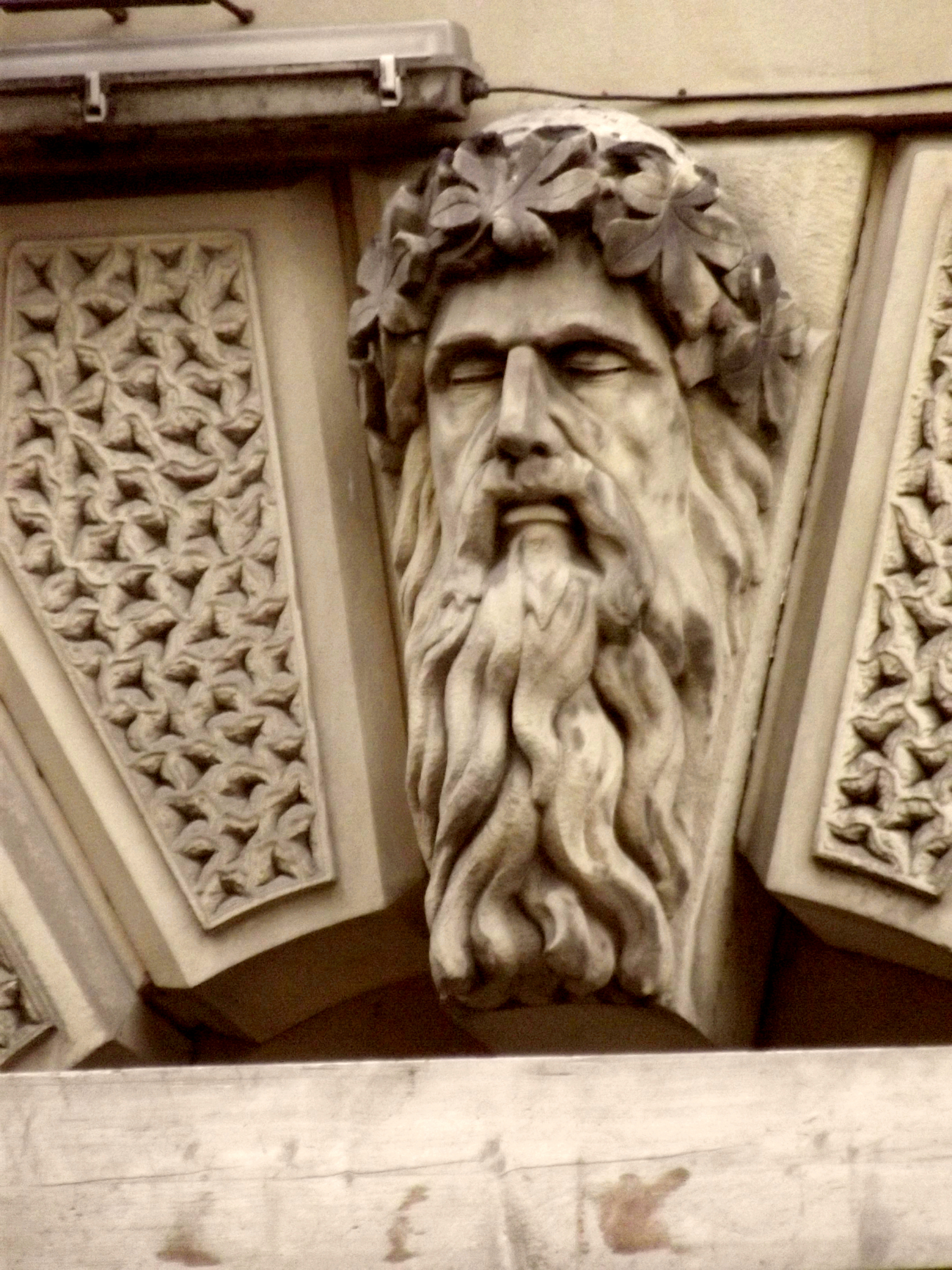 St George's Hall, Hall Ings, Bradford, West Yorkshire, England. designed by Henry Frances Lockwood and William Mawson, and completed in 1853. Architectural stone carving by Robert Mawer. The hall was under scaffolding, in process of refurbishment, in 2016.